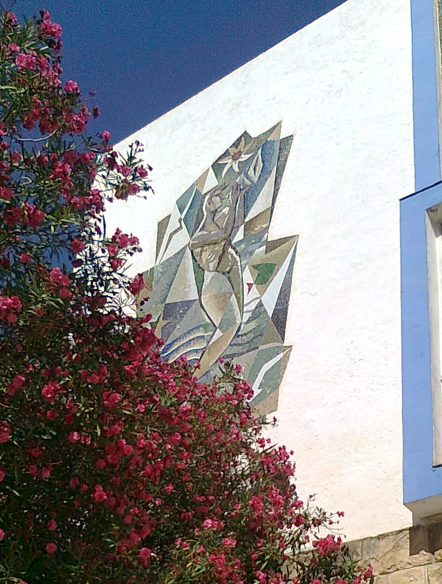 Cine Teatre Brisamar. Mosaic by Santiago Padrós (1961)